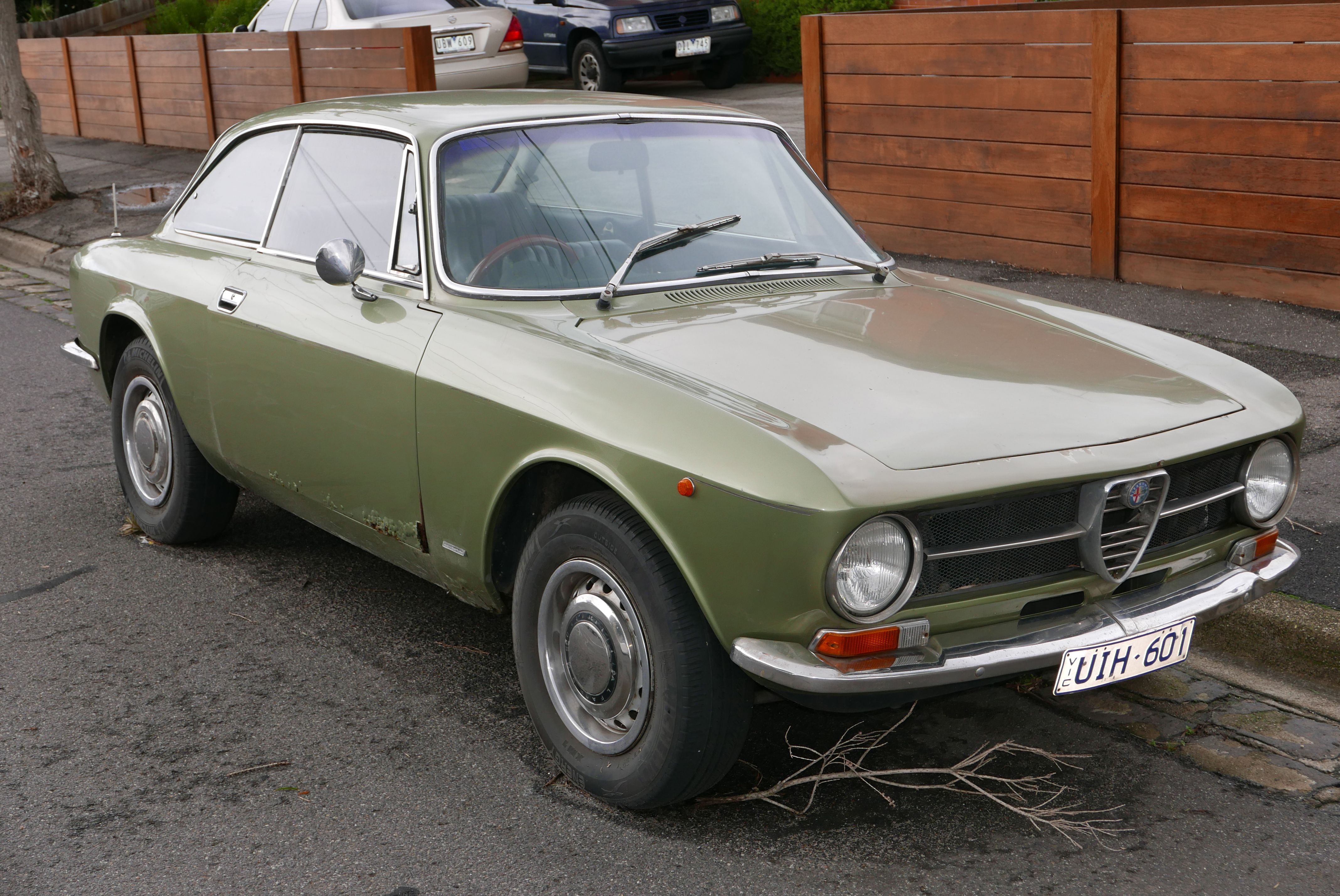 1973 Alfa Romeo 1600 GT Junior coupe. Photographed in Thornbury, Victoria, Australia. Vehicle registration enquiry results Jurisdiction Victoria Registration UIH601 Chassis code AR2205964 Engine code AR0053607262 Compliance date 1973-10 Year of manufacture 1973